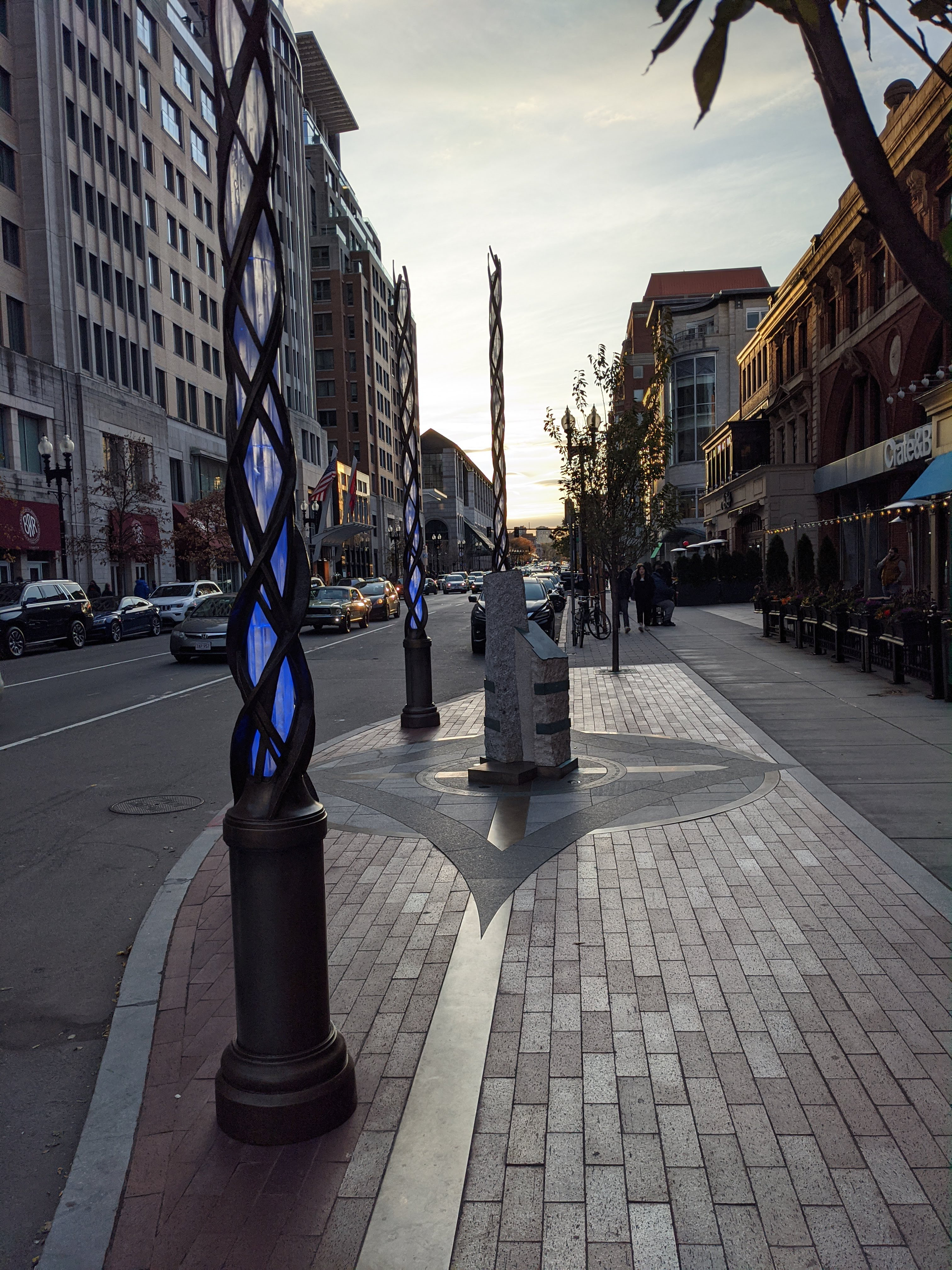 Memorial to the victims of the Boston Marathon Bombings in 2013, located on Boylston Street in Boston, Massachusetts.